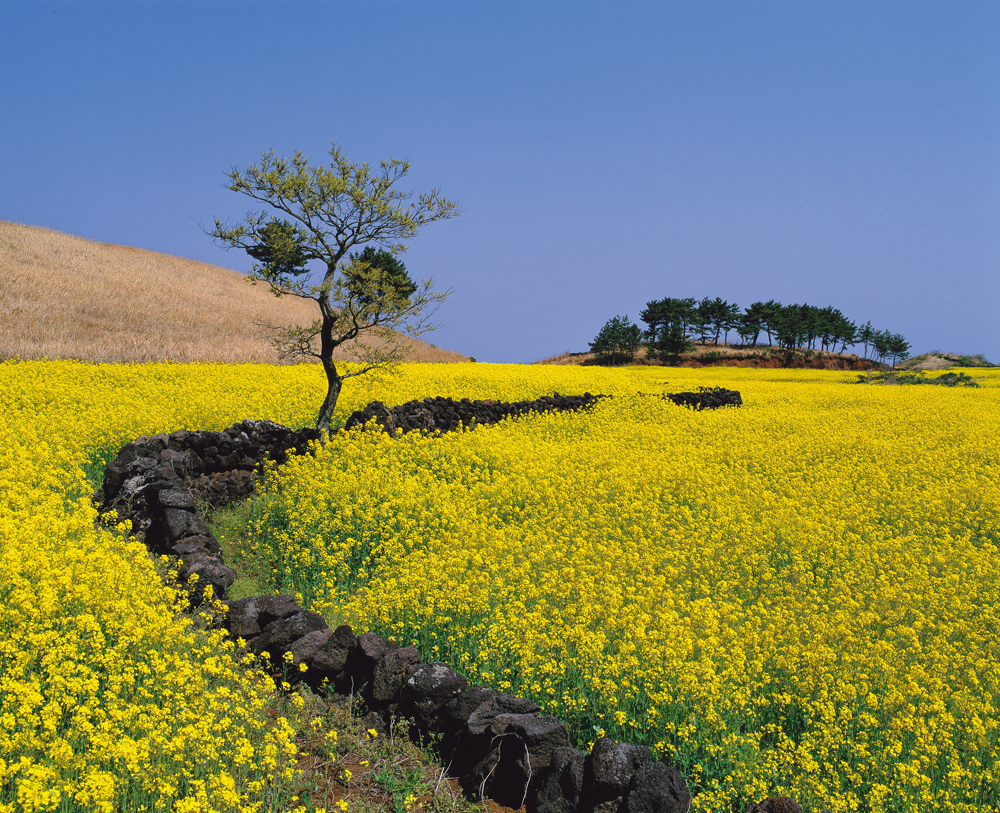 Jeju-do, a Special Self-Governing Province is the only special autonomous province of Korea, situated on and coterminous with the country's largest island.